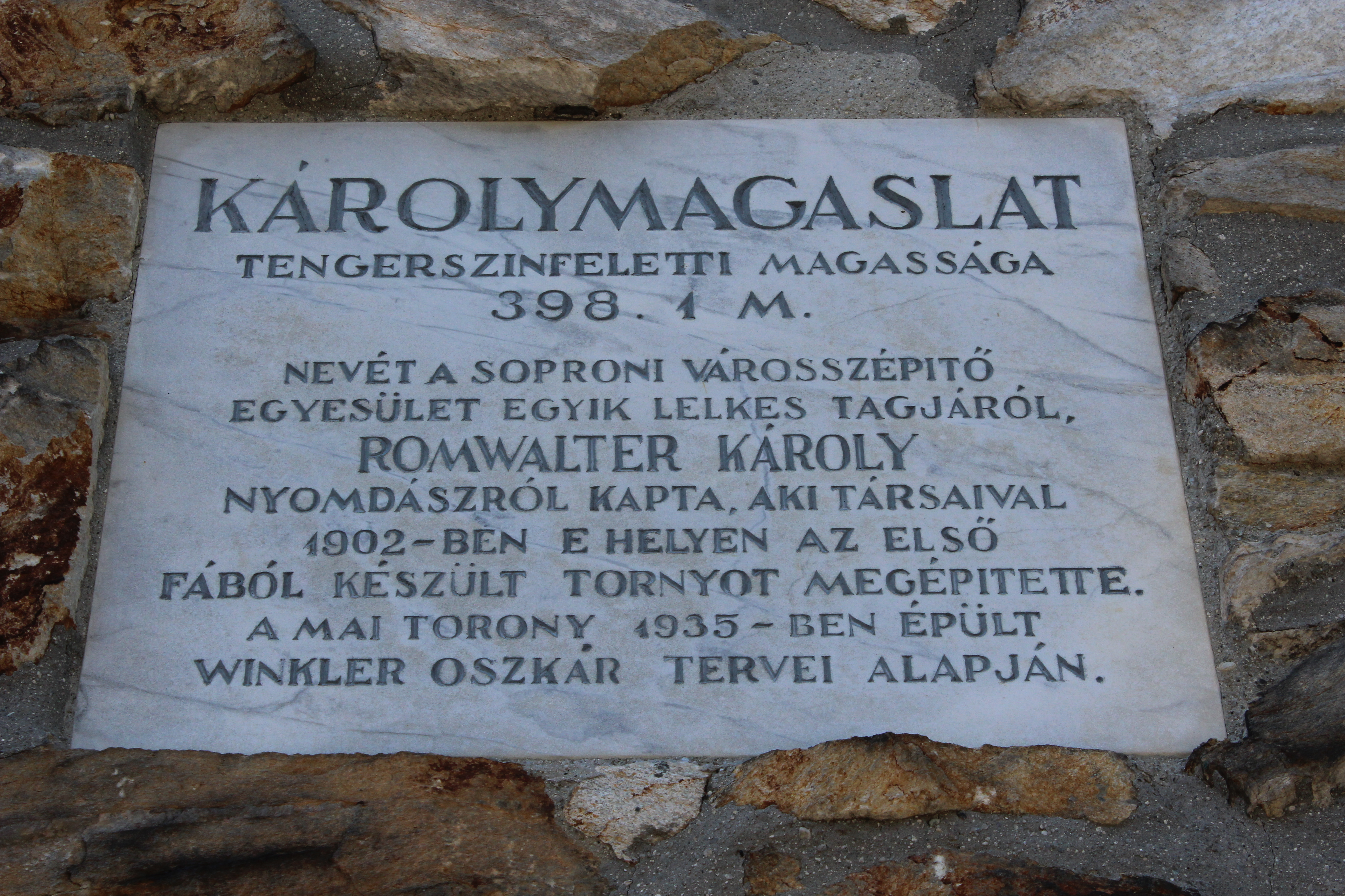 Memorial plaque of Károly Lookout Tower (Sopron, Hungary)